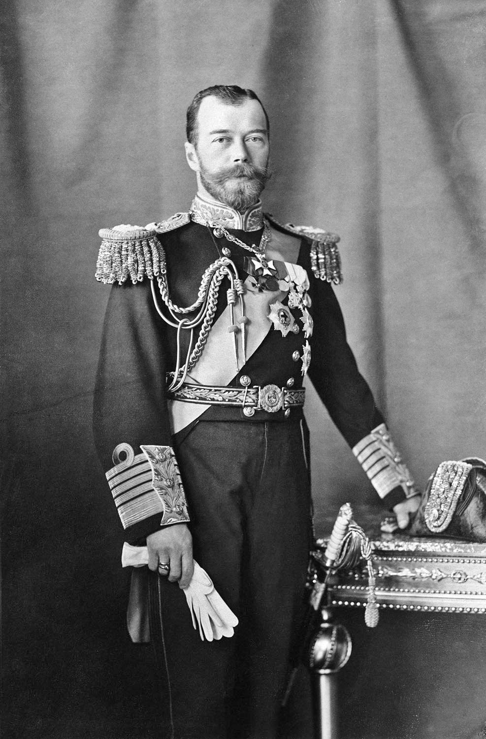 Gelatin silver print photograph of Nicholas II, Emperor of Russia. He is standing with his left hand resting on a bicorn hat on the decorative table beside him to the right. He is wearing an ornate naval uniform including epaulets, a sash and insignia. There is a pair of white gloves in his right hand and a sword by his side.